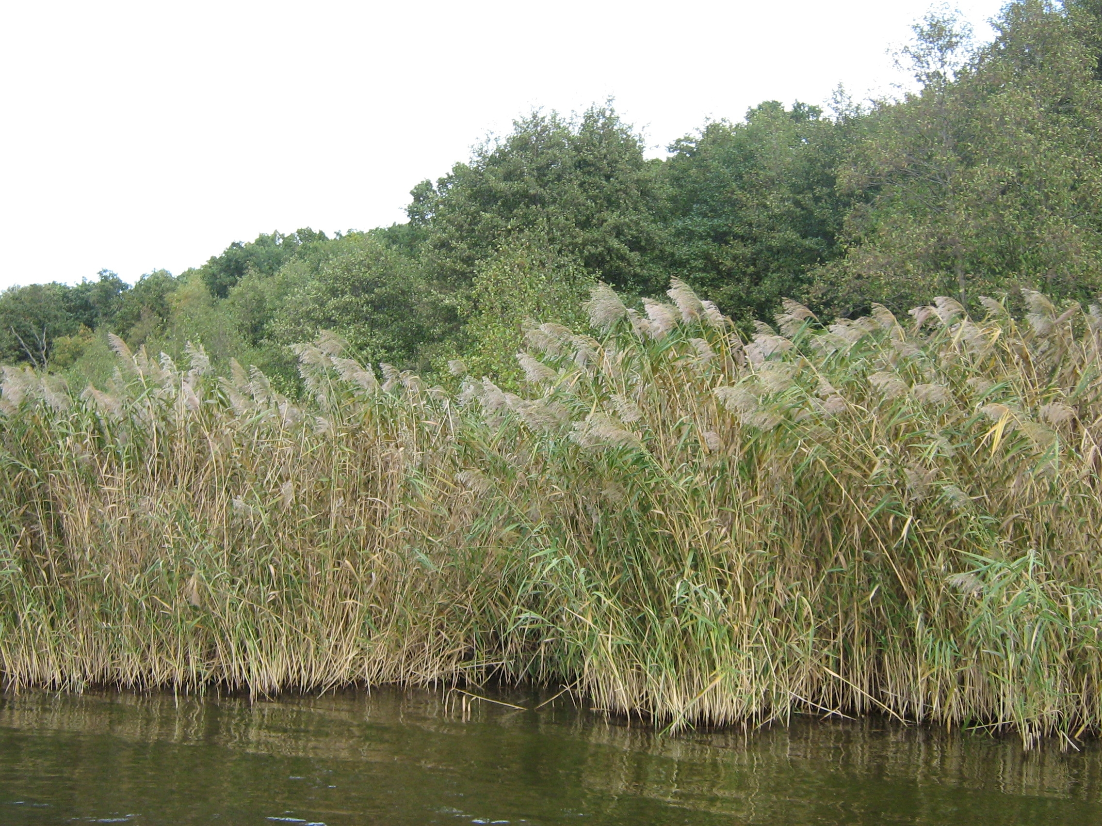 The Lake "Schwielowsee" (River Havel) in Brandenburg (Germany).